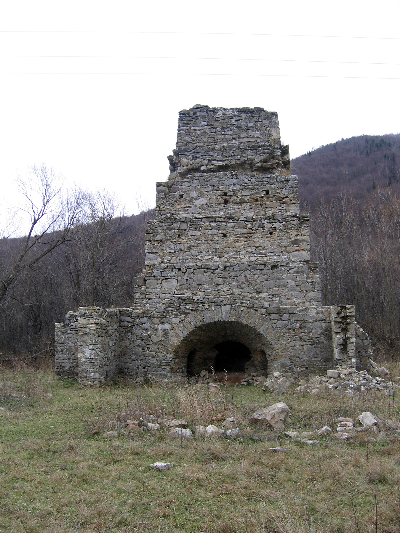 Anheliv furnace is a blast furnace in urochishche (natural landmark) Anheliv, Ukraine. The furnace is the oldest extant blast furnace in Ukrain. It was built in 1812 and operated untill 1818.